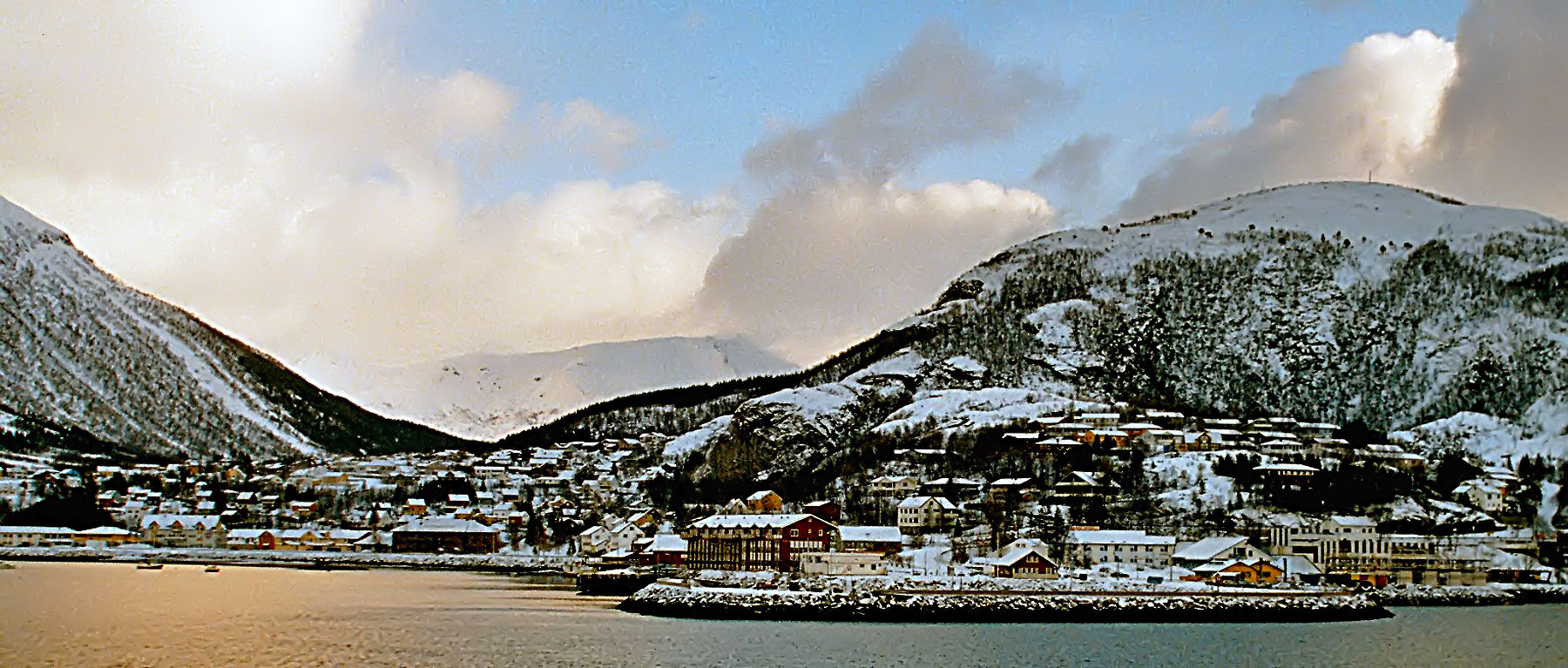 Ornes in Meloy, NordlandNorsk bokmål: Ørnes i Meløy